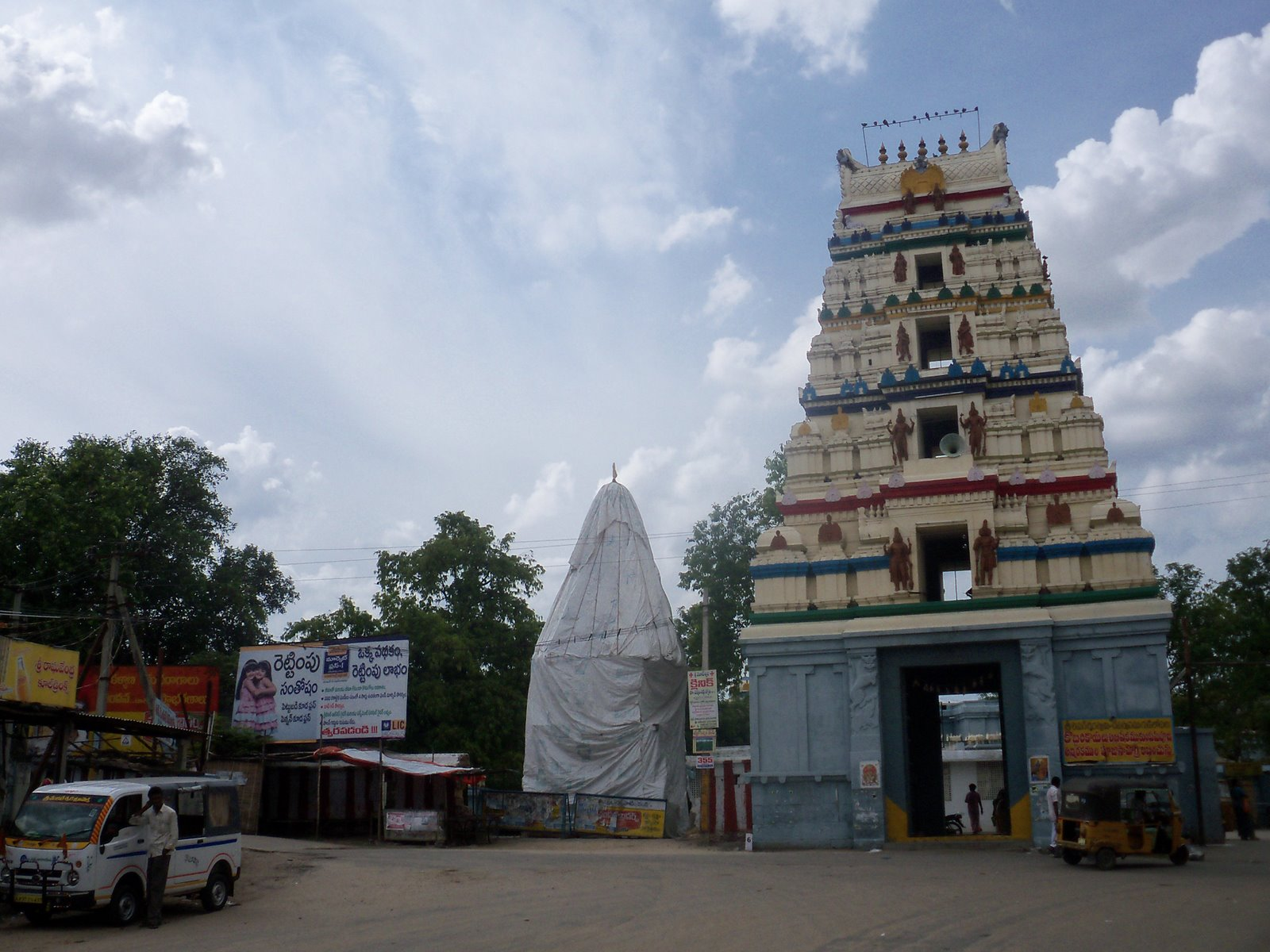 A view of Gopuram at Amaravathi, Andhra Pradesh